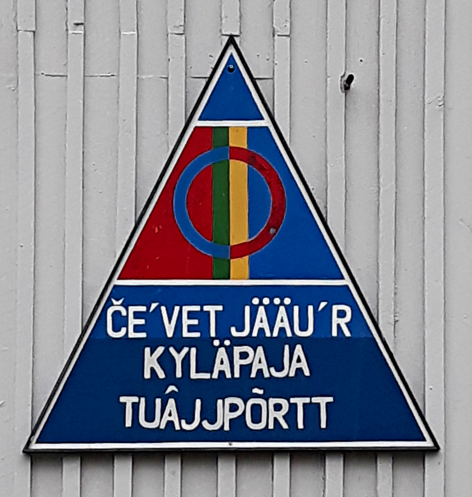 Sevettijärvi village workshop Sääʹmǩiõll: Čeʹvetjääuʹr tuâjjpõrtt